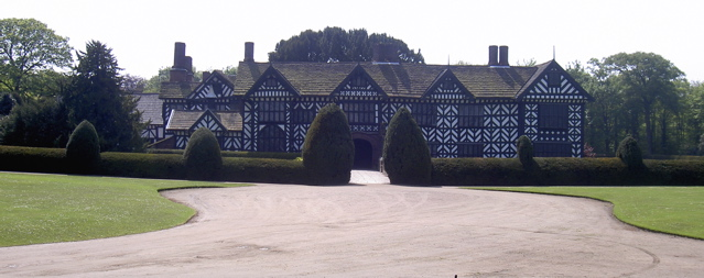 Photo taken by myself, John McKerrell